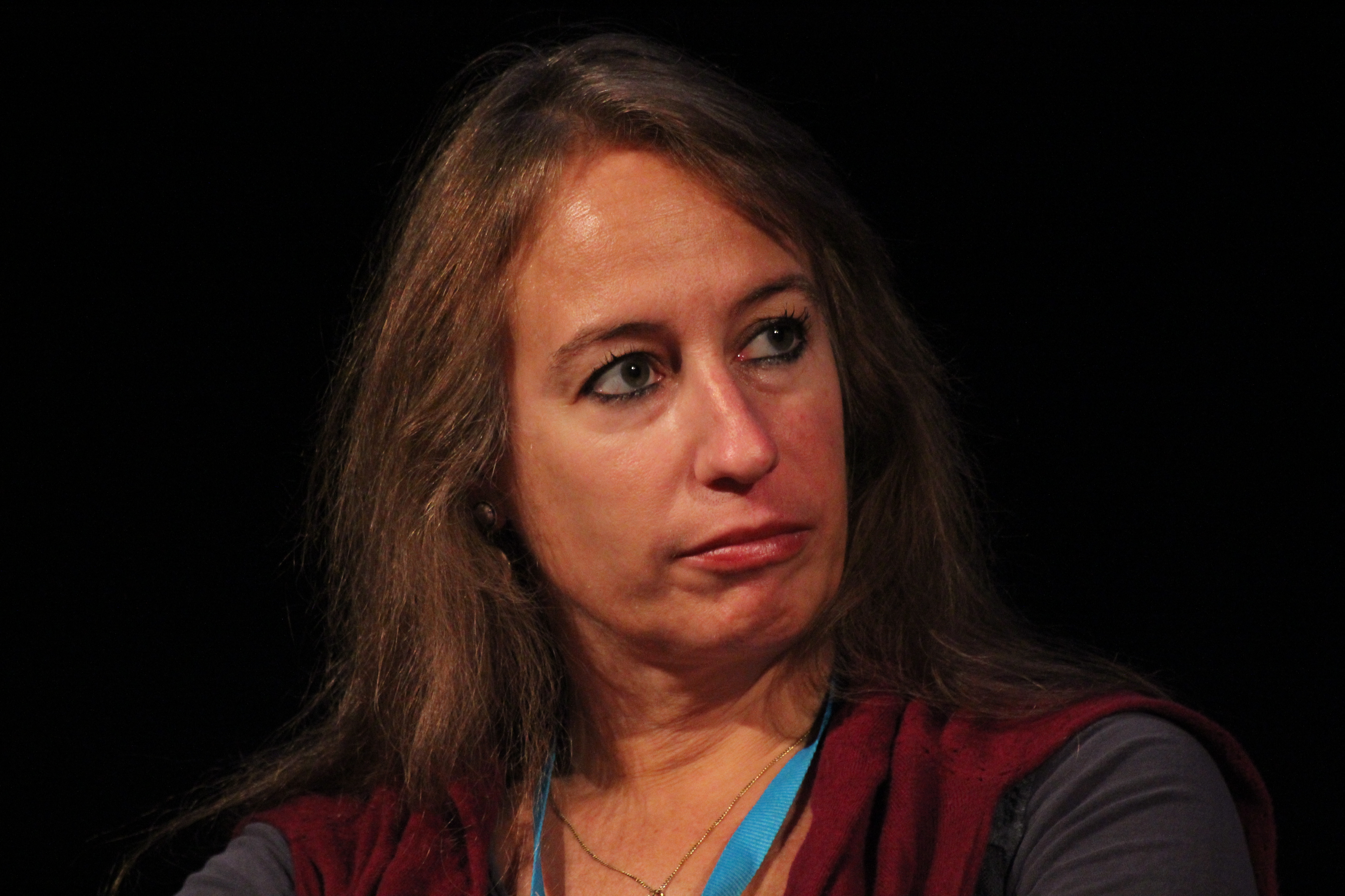 Laurence Suhner at the Utopiales 2014 in Nantes, France.